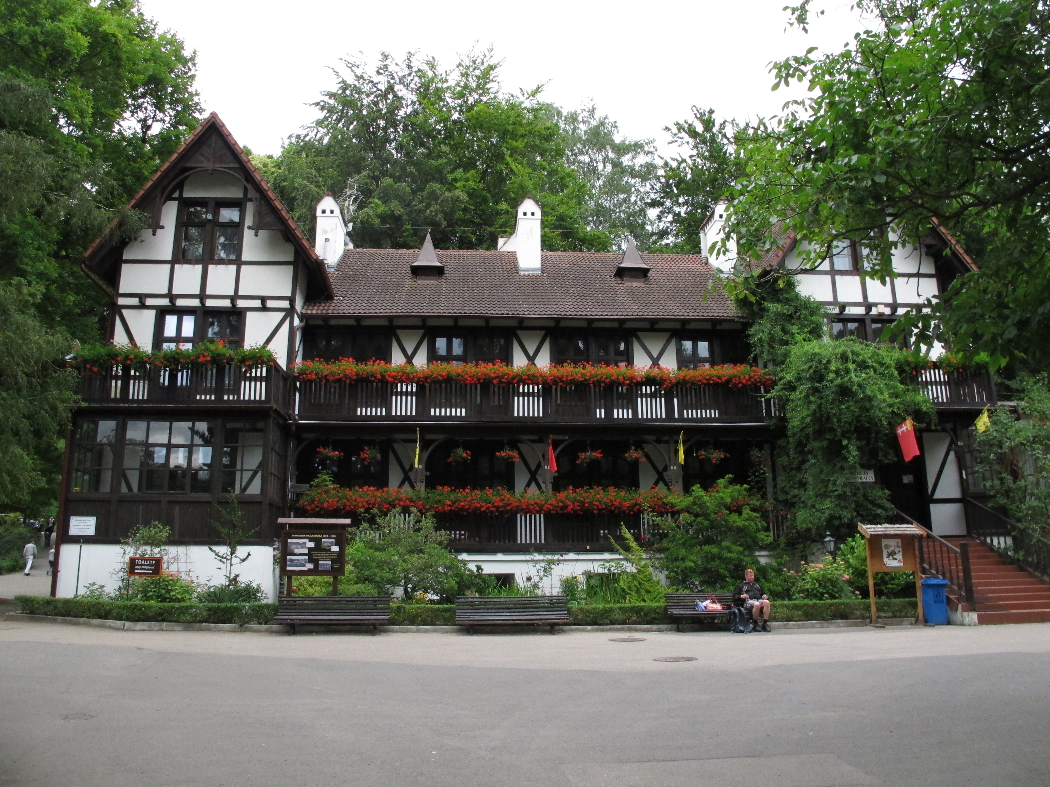 Gdańsk - zoological garden - garden administration building, old Forest Mill (Strauchmühle)